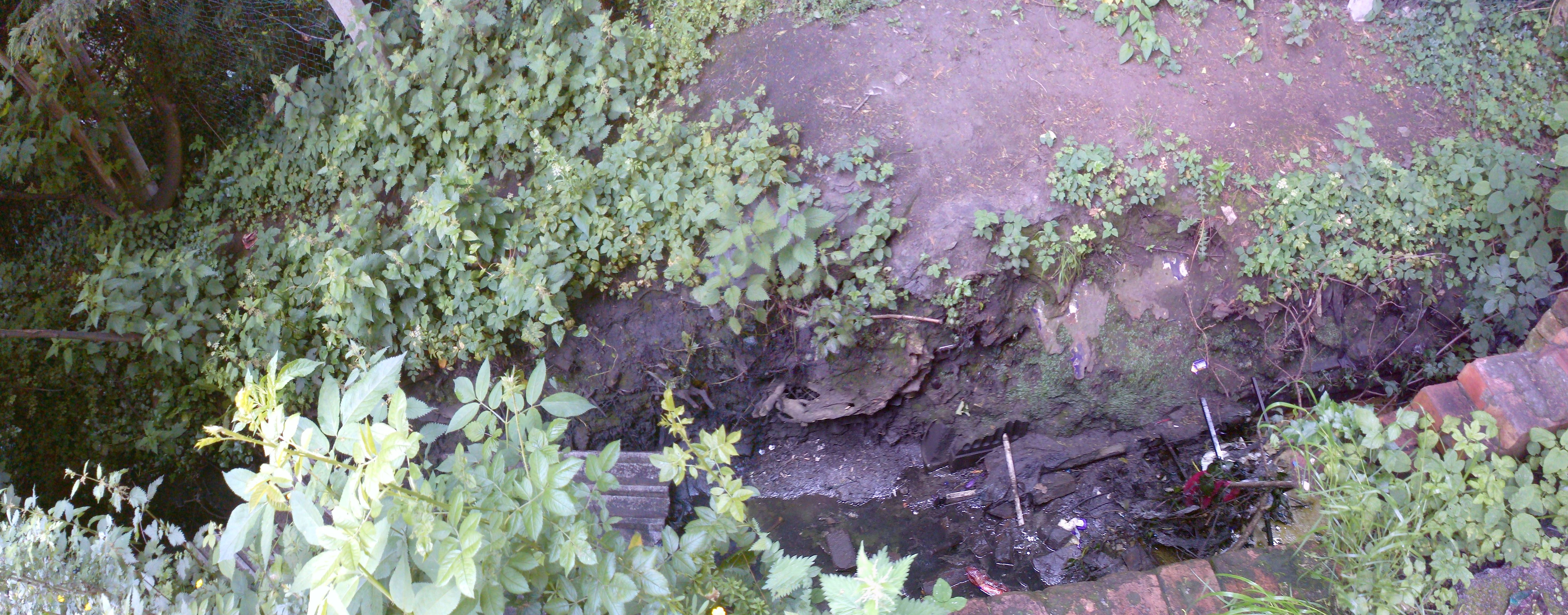 The last visible bits of the Tue Brook in Liverpool The last visible bits of the Tue Brook in Liverpool